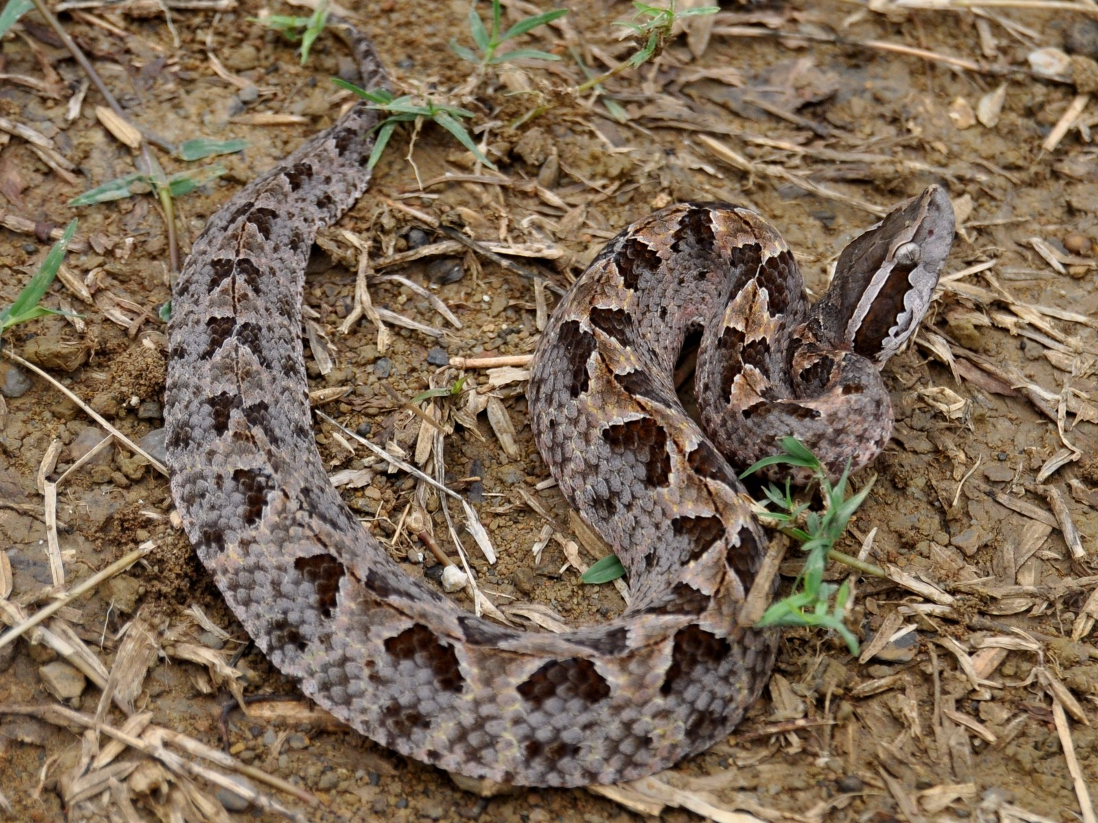 Young Malayan Pit Viper (Calloselasma rhodostoma); from Karawang, West Java. Ready-to-strike posture.